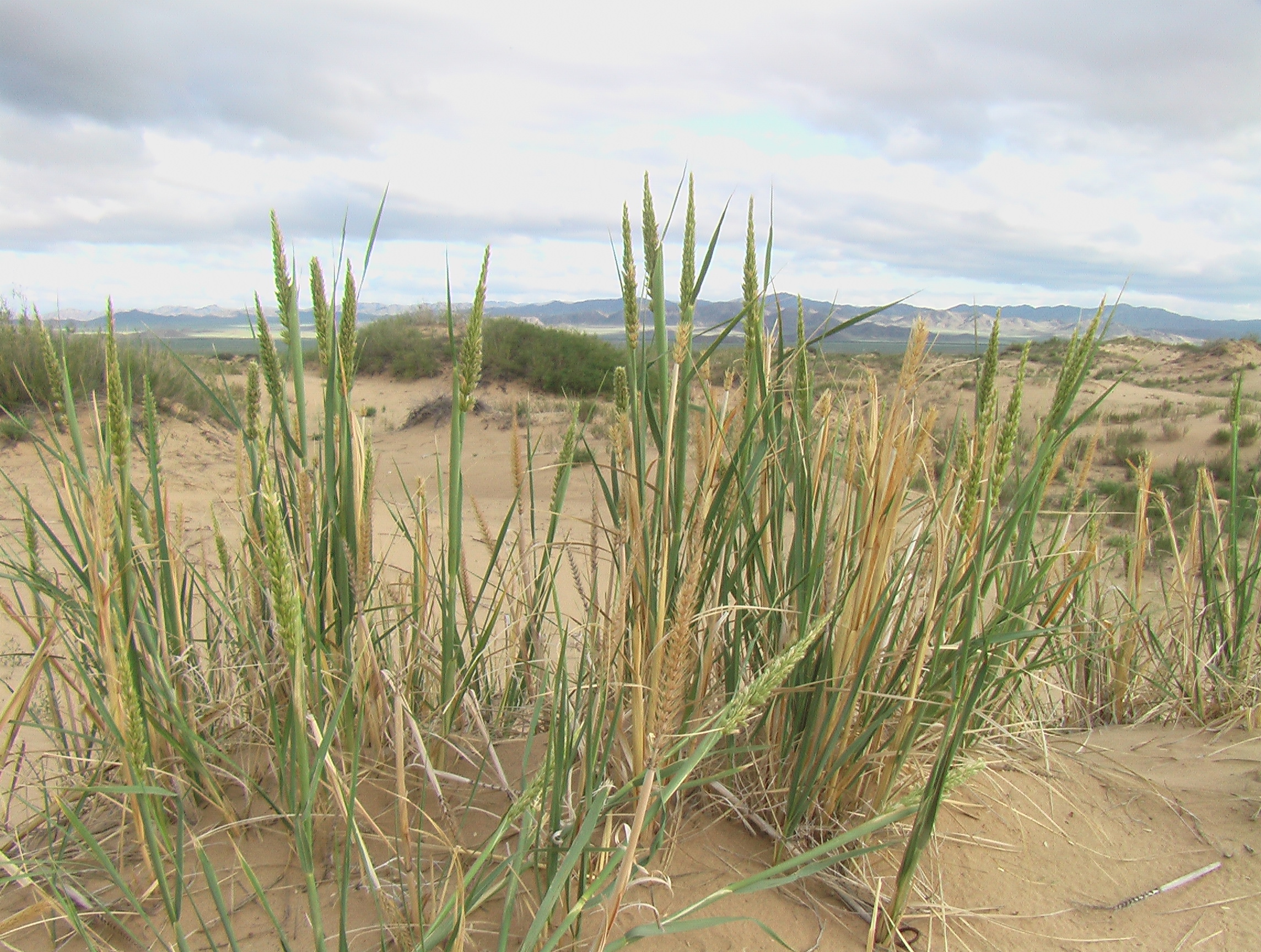 Leymus racemosus (Lam.) Tzvel. in Bayan-Önjüül sum of Töv Province, Central Mongolia